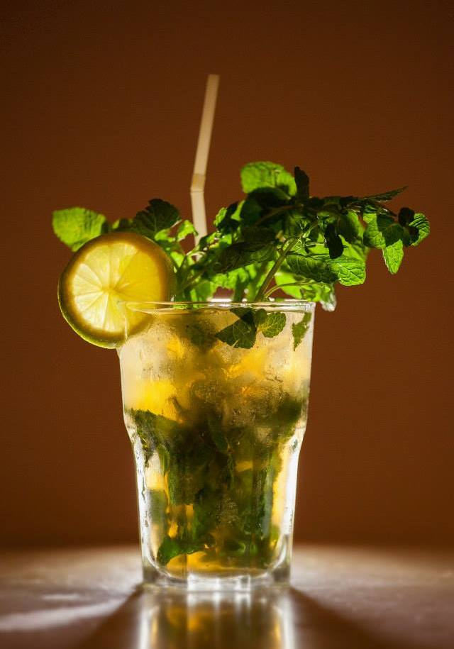 Mojito